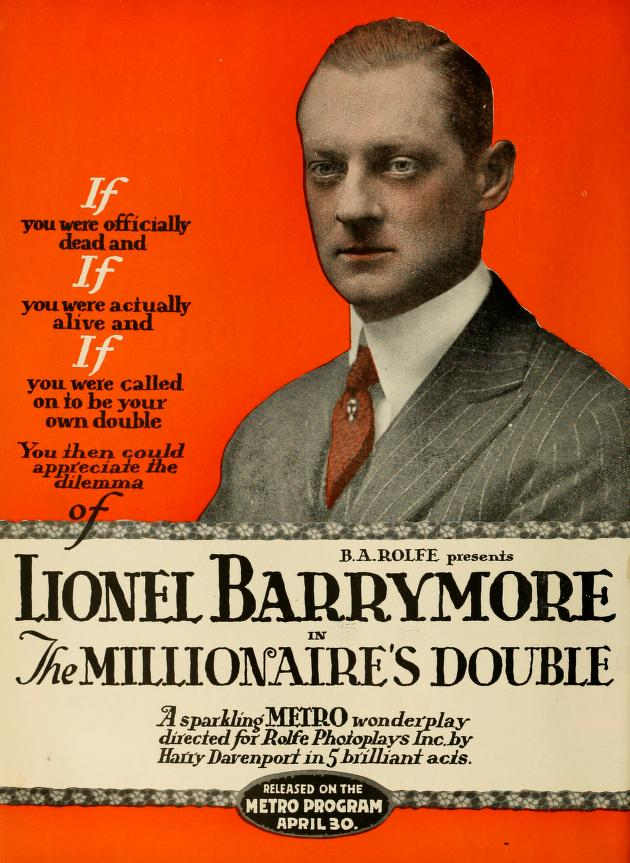 Advertisement in Moving Picture World for the American film The Millionaire's Double (1917).